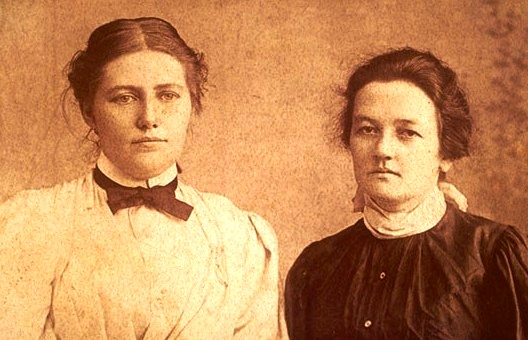 Simkhovitch, Mary K. (1867-1951) and Shinn, Anne O'Hagan August 8, 1869 – June 24, 1933) c. 1886-1890